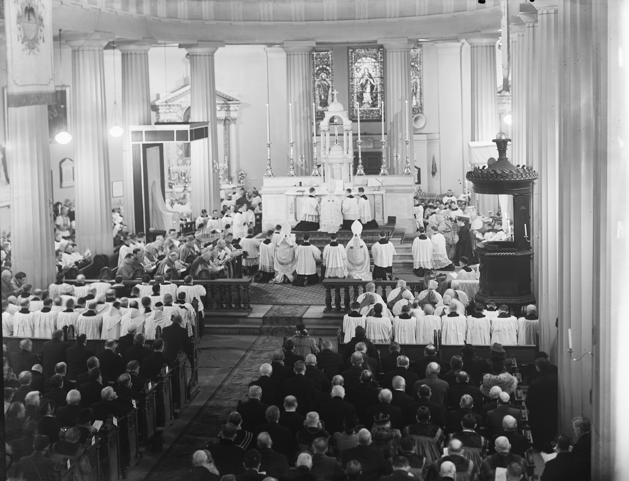 For Monday we have the installation of one of the most powerful and controversial figures in Ireland during the middle years of the last century. The name John Charles McQuaid still reverberates in Irish consciousness. With thanks to today's contributors, including [/photos/swordscookie/ swordscookie], [/photos/129555378@N07/ sharon.corbet], and [/photos/20727502@N00/ guliolopez], we have confirmation of date (late 1940), principal subject (John Charles McQuaid), location and a full description of the event in question - including details on those present, and their attire allowing us to name some of those who would otherwise be anonymous backs and nameless tops-of-heads.... Photographer: Brendan Keogh Collection: Keogh Photographic Collection Date: 1940 NLI Ref: Ke 213 You can also view this image, and many thousands of others, on the NLI’s catalogue at